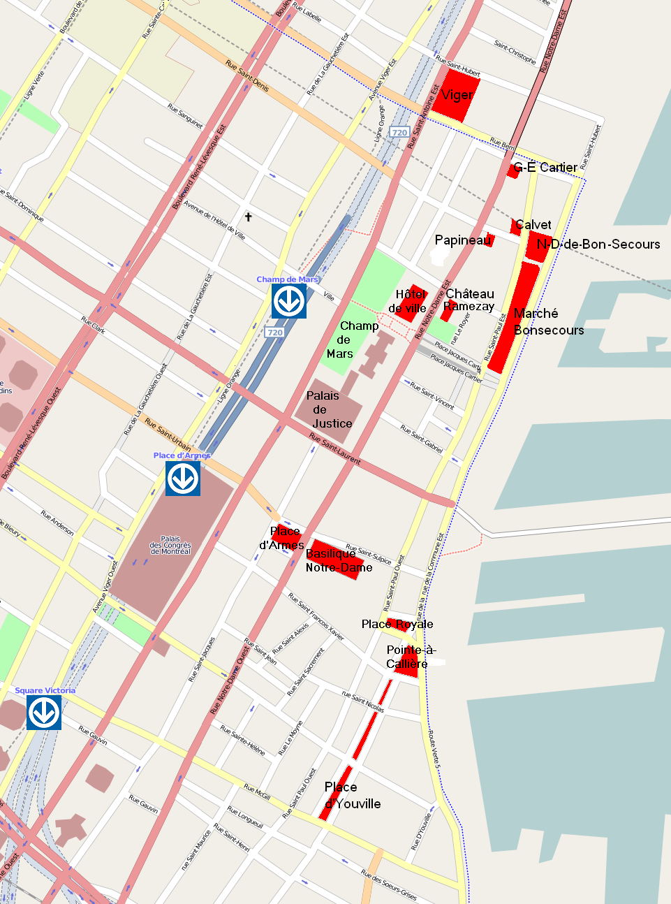 Map of the Old Montreal